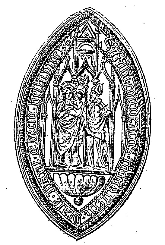 Seal of Bec Abbey, drawing by M.J. Martel in Le Magasin pittoresque, 1850. The seal was made 1363. Mary, carrying Jesus as a child and Herluin with mitre and crook. The inscription reads: Sigillum conventus monasterii beate Marie de Becco Helluyny. 1363.